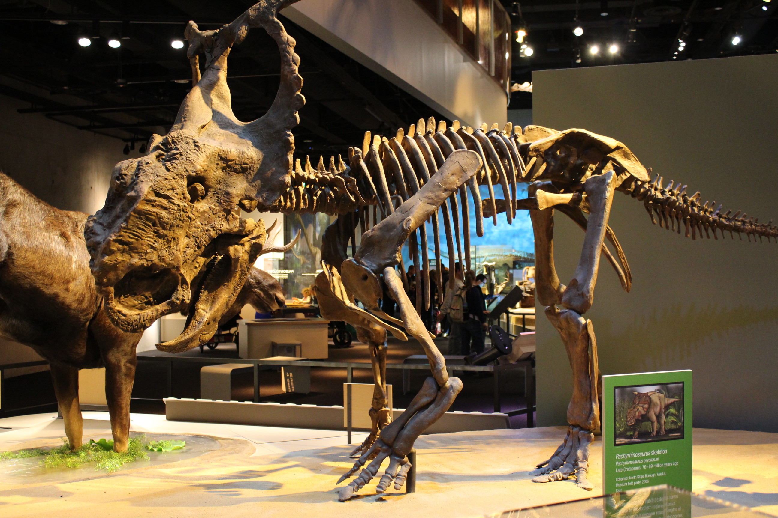 Pachyrhinosaurus perotorum skeleton, Late Cretaceous, 70-69 million years ago. Collected: North Slope Borough, Alaska, 2006